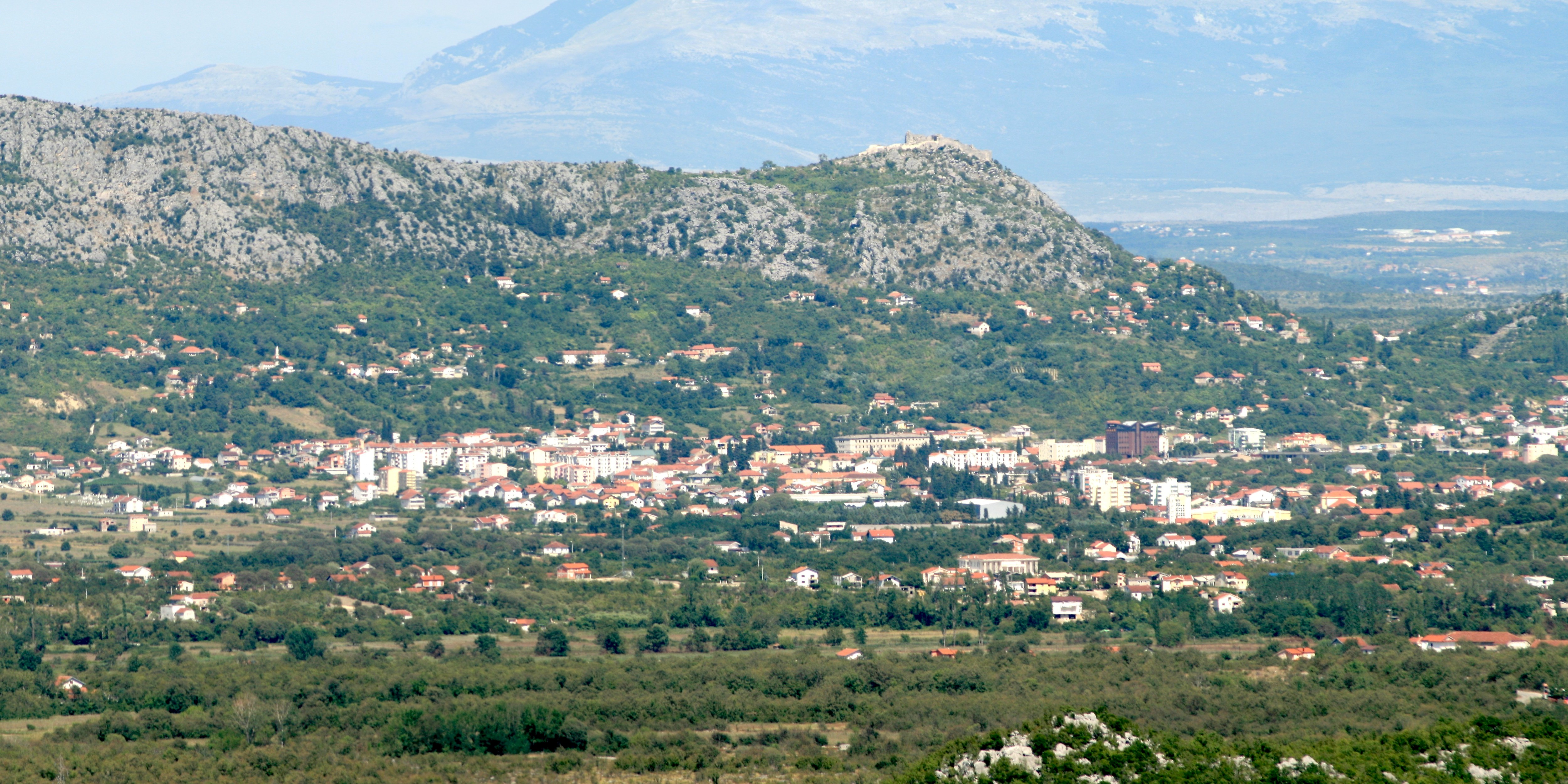 View of Ljubuški from the State Street (Croatia) over Crveni Grm.